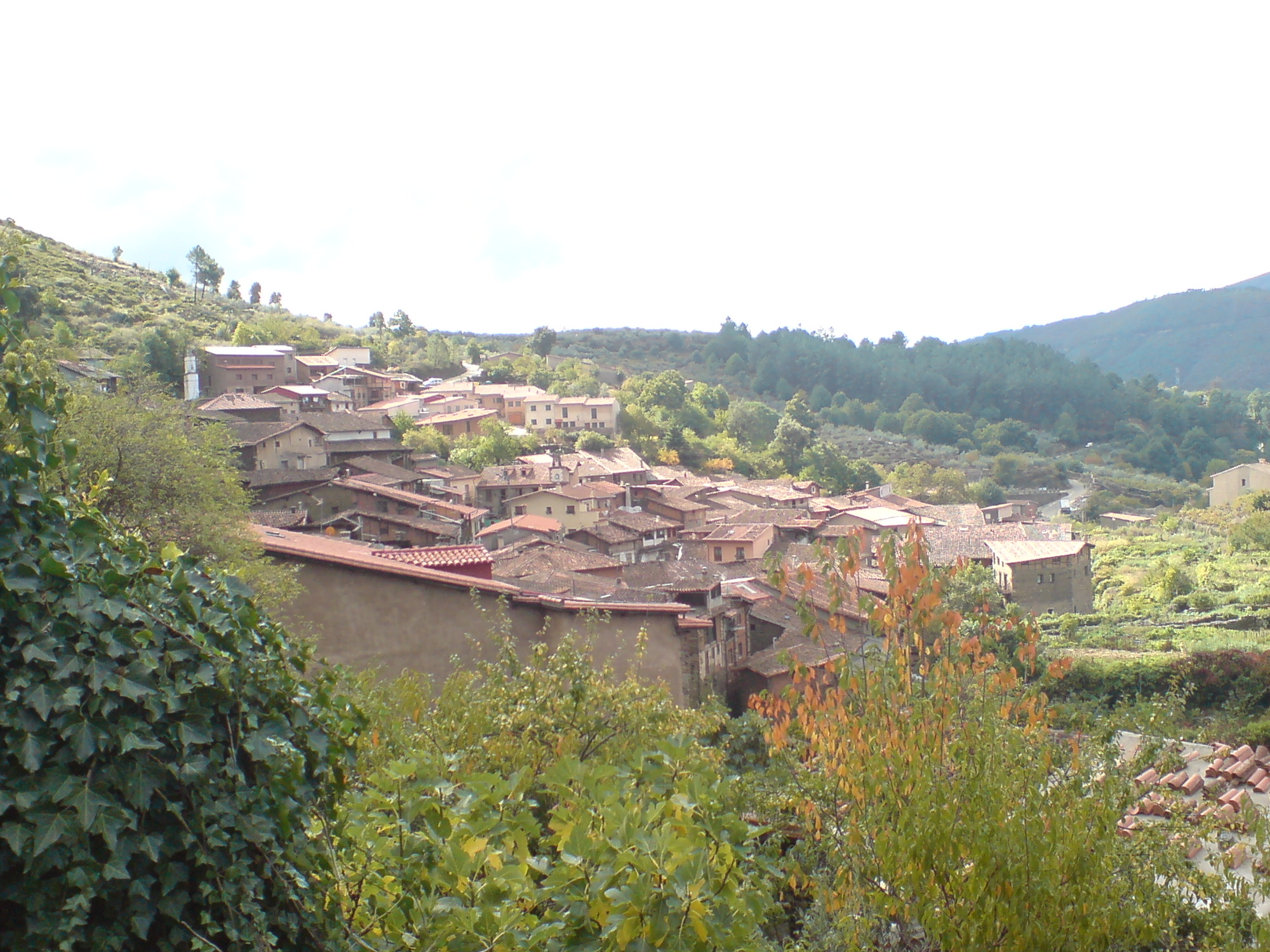 Robledillo de Gata, General View.